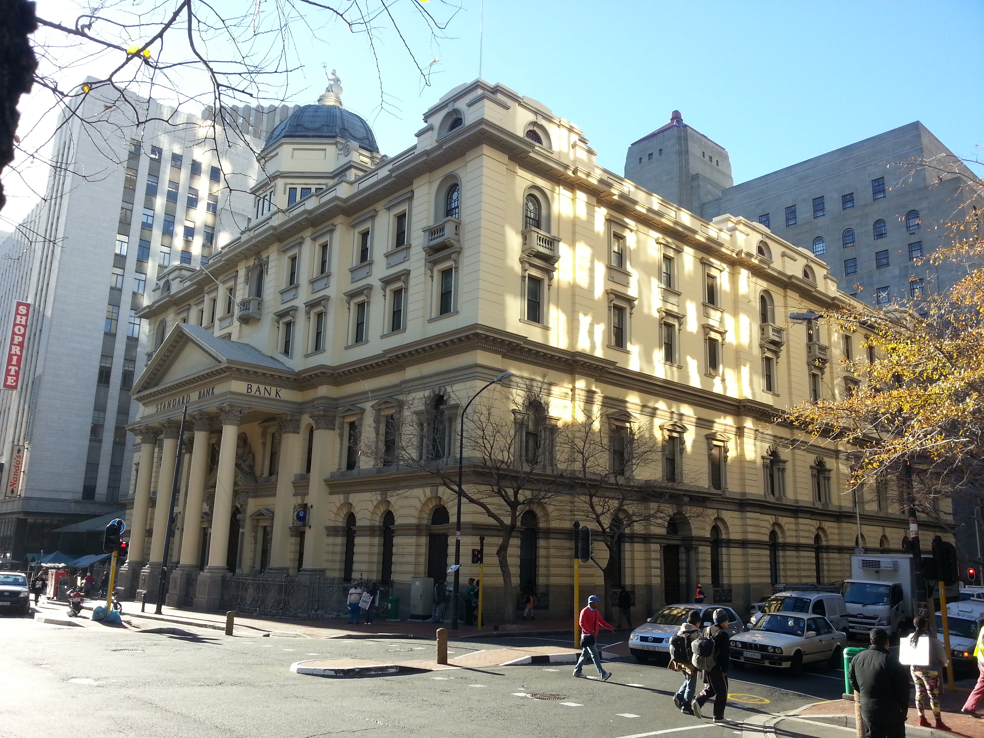 The former Standard Bank Adderley Street Branch in Cape Town which closed on 30 November 2011. The building was the formerly the national head office of the Standard Bank. This media shows a South African Protected Site with SAHRA file reference 0000000000.